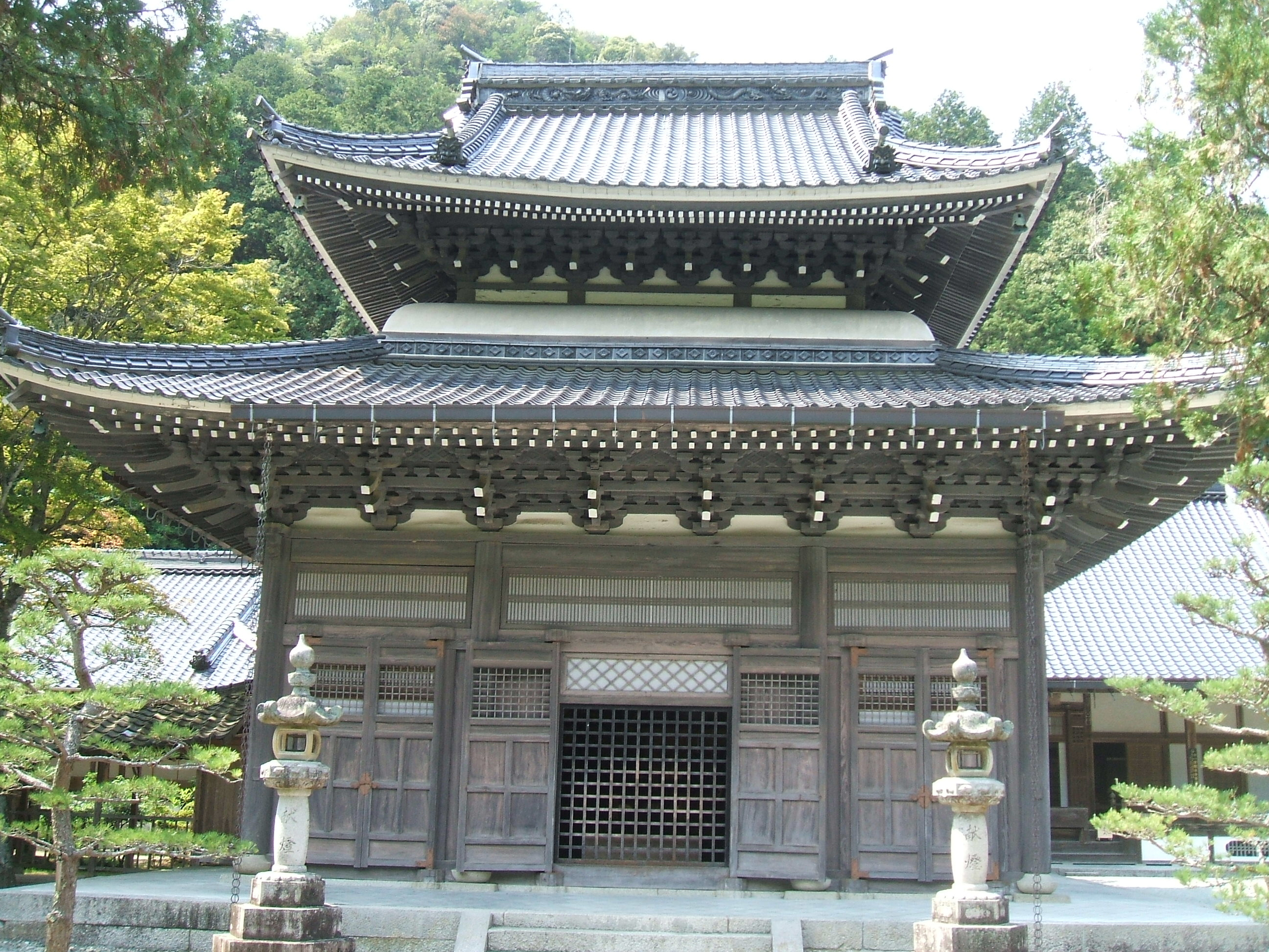 Butsuji Butsuden